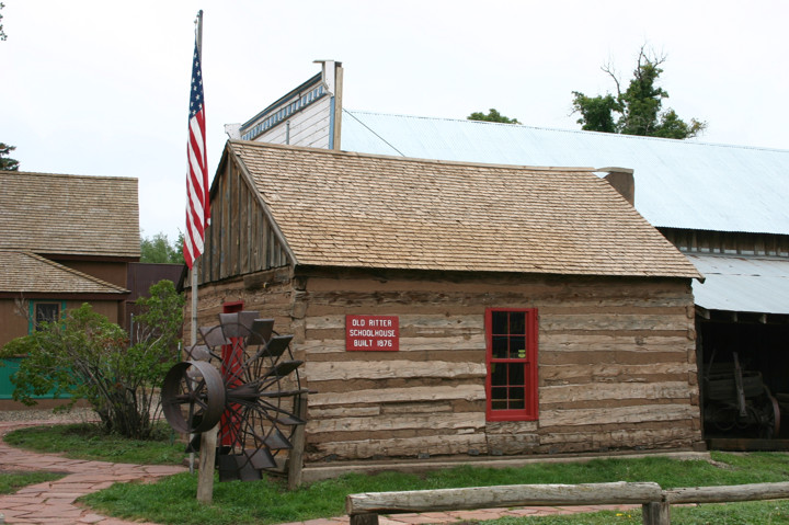 Old Ritter School in La Veta, Colorado